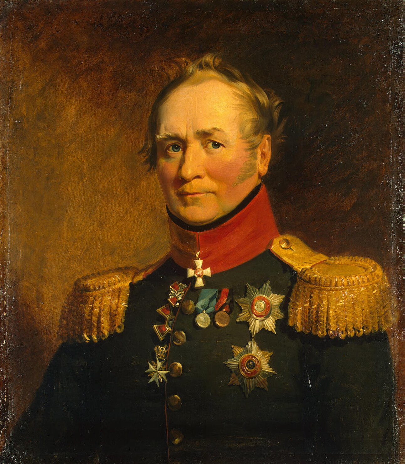 Ertel, Fyodor Fyodorovich